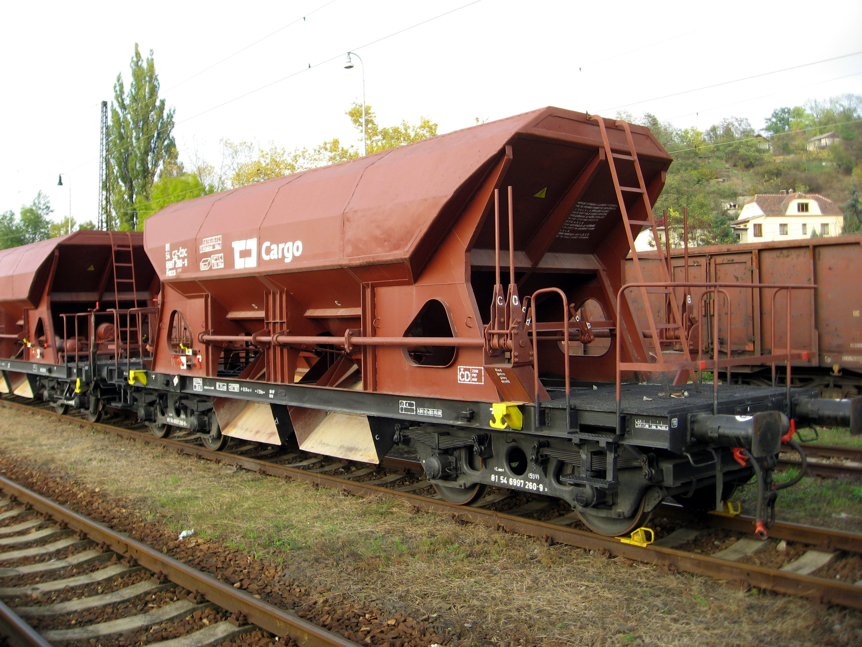 ČSD Class Sas (Faccs), now ČD-Cargo, Nr. 81 54 699 7 260-9 at station Brno - Královo Pole